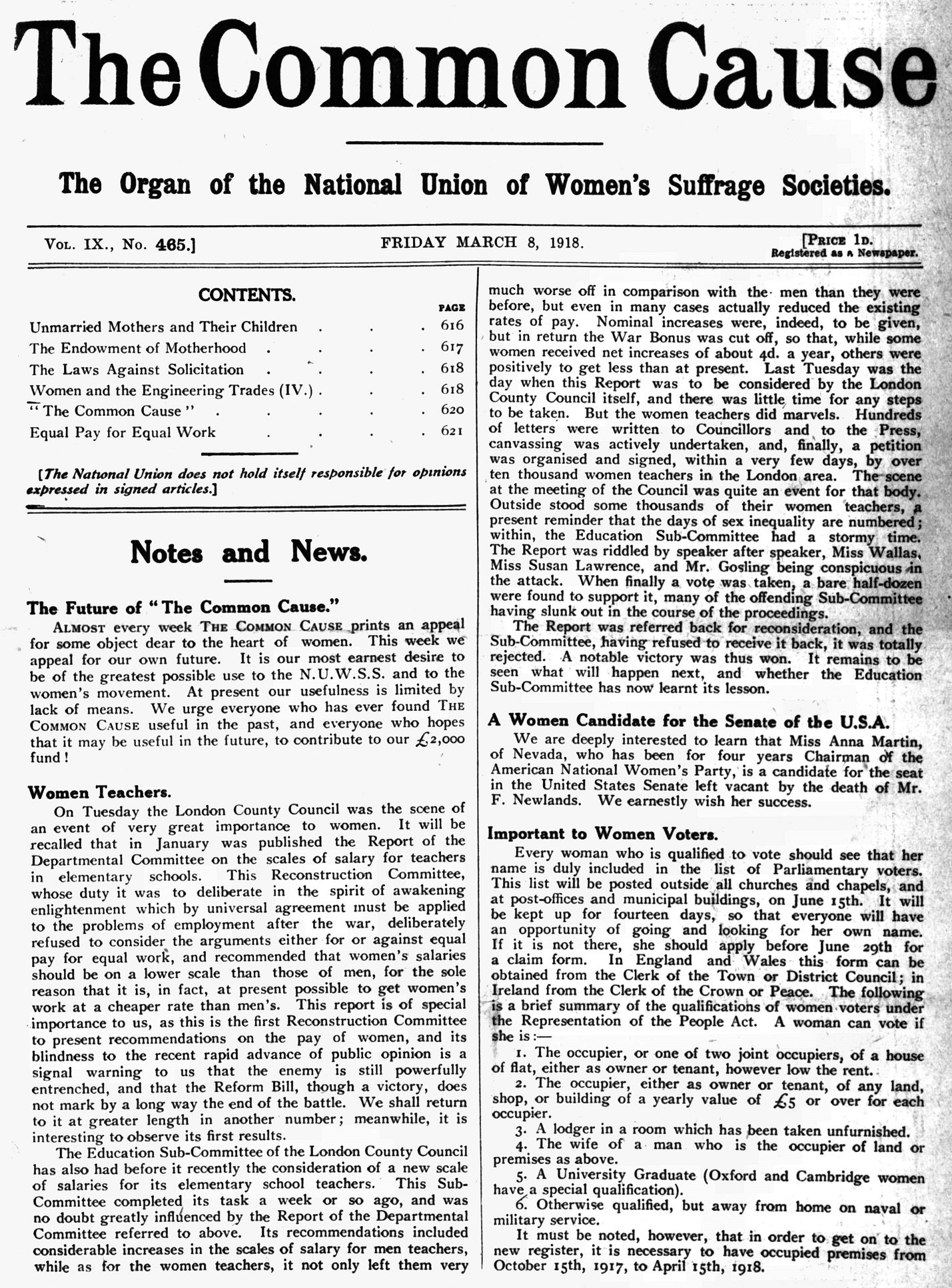 The Common Cause was a suffragist publication. This is the front page of one edition.